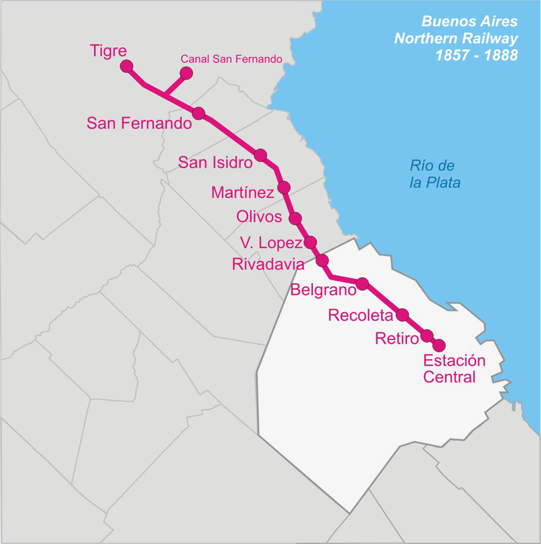 Buenos Aires Northern Railway network. That was the first British-owned railway of Argentina, being taken over by Central Argentine Railway in 1889.